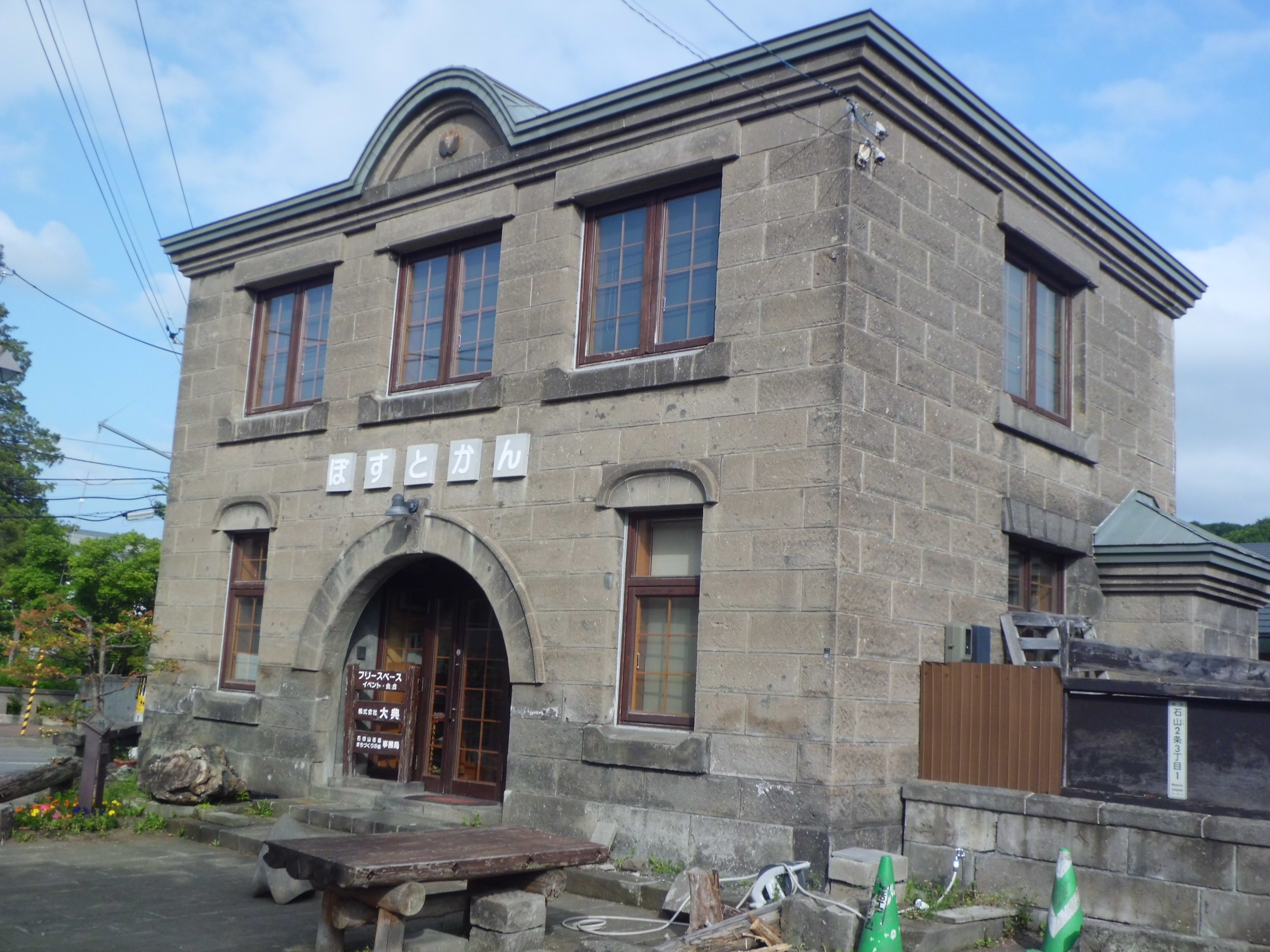 Post-kan, former Ishiyama Post Office